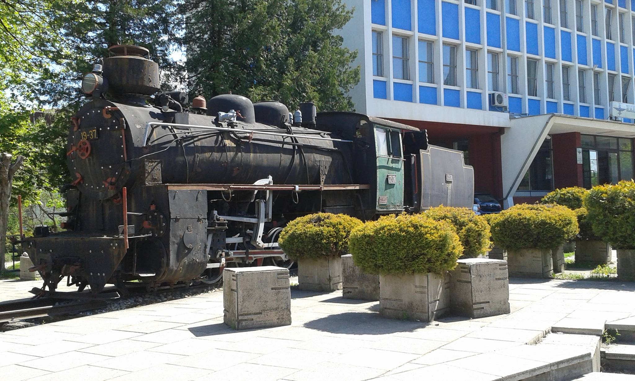 JŽ narrow gauge engine 1937 on display at Doboj-Republika Srpska